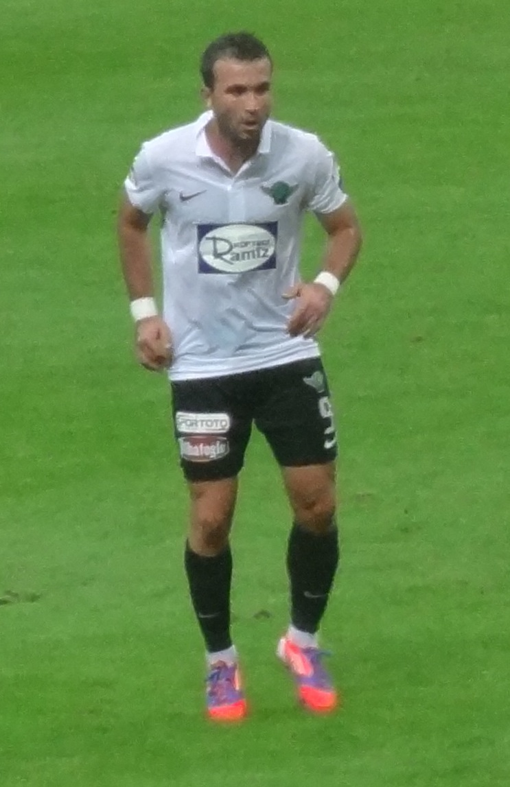 GS vs Akhisar